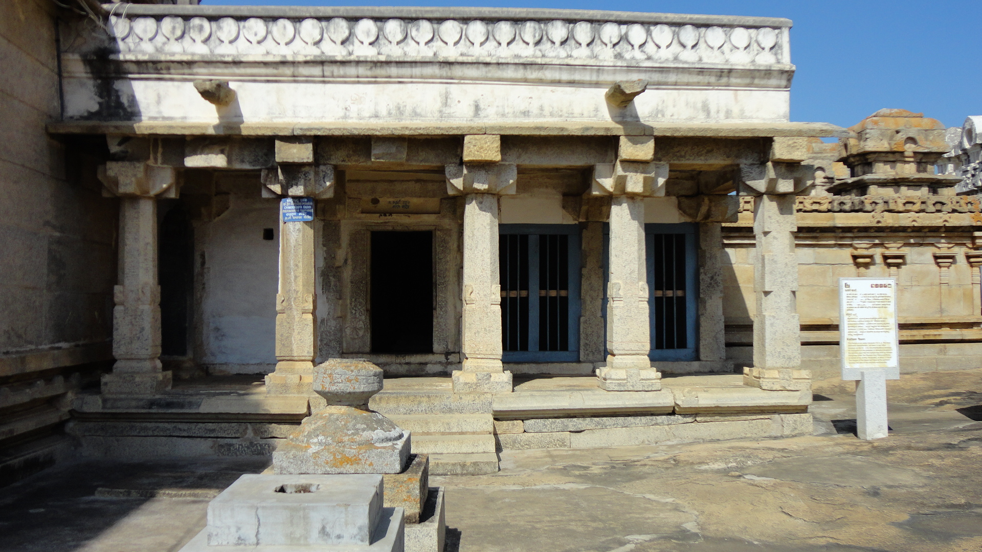 This photo covers the frontal and only entrance of the Chandragupta Basti, Sravanabelgola, Hassan, Karnataka. It also partially covers south-western sanctorum part of the temple and the base of the broken light housing pillar in front of the temple.